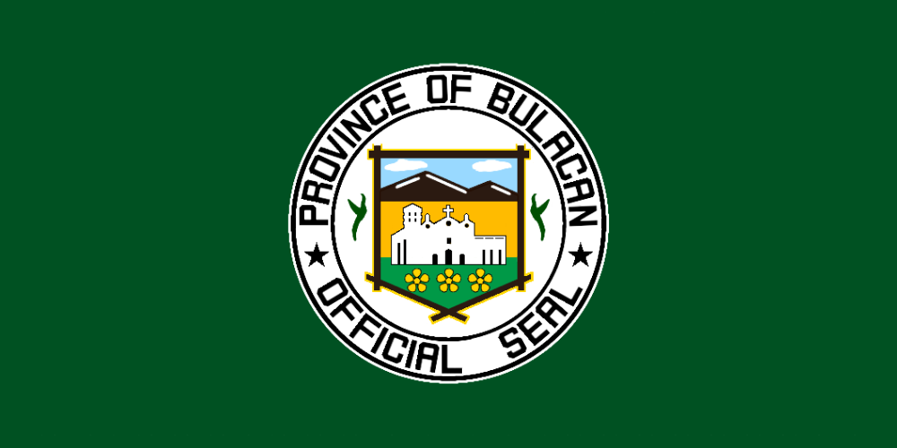 Provincial flag of Bulacan